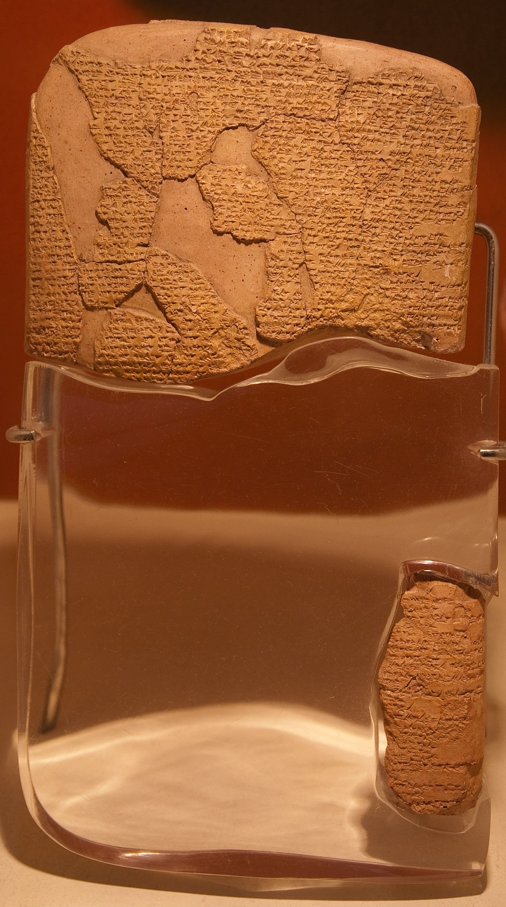 Table of Treaty of Kadesh, version discovered at Boğazköy, Turkey. Museum of the Ancient Orient, one of the Istanbul Archaeology Museums.